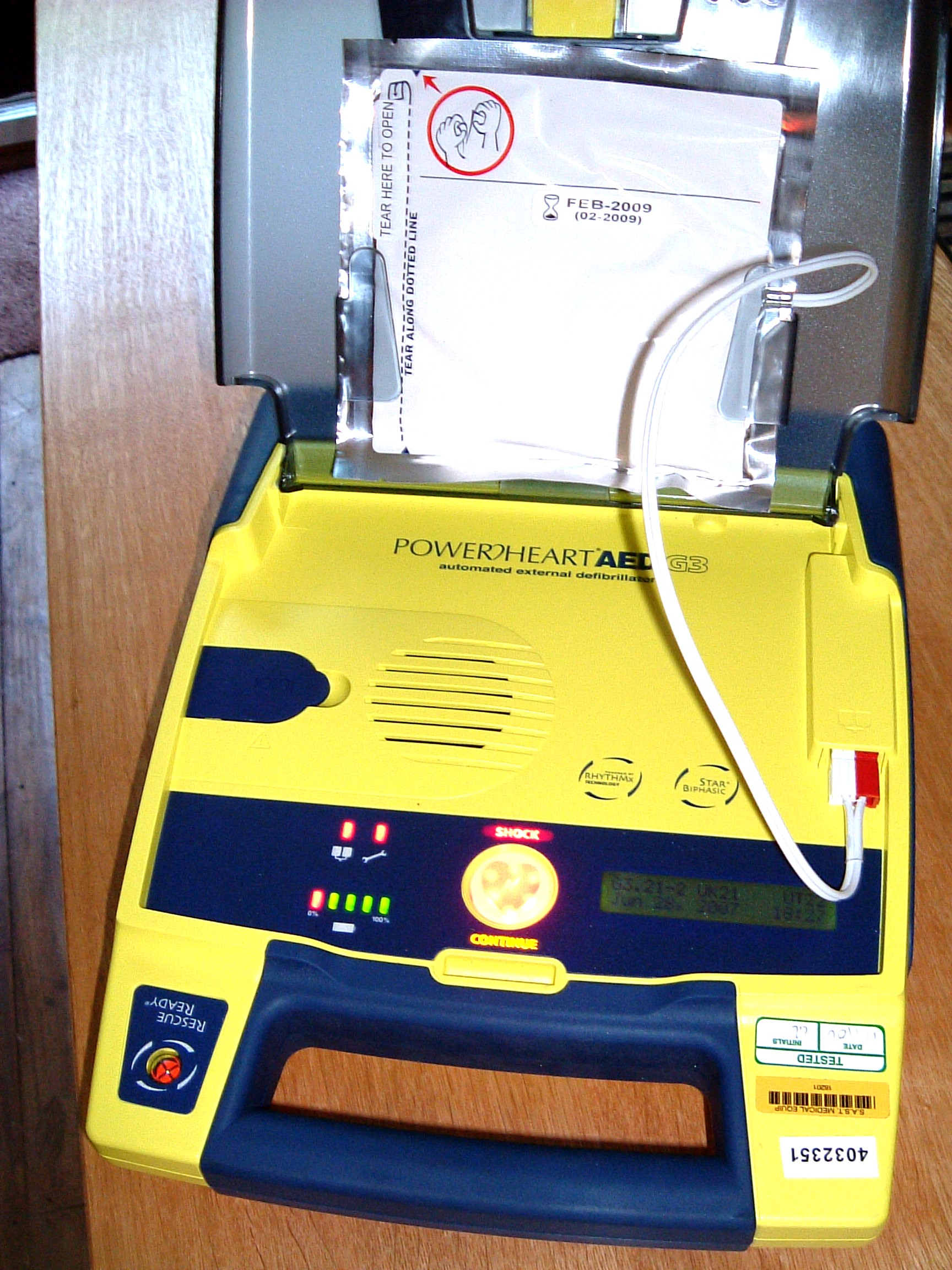 Automated External Defibrillator (AED) Open and charged